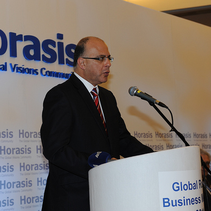 Marios Garoyian, President of the Cypriot House of Representatives, speaking to Horasis: The Global Visions Community on 11 April 2011.